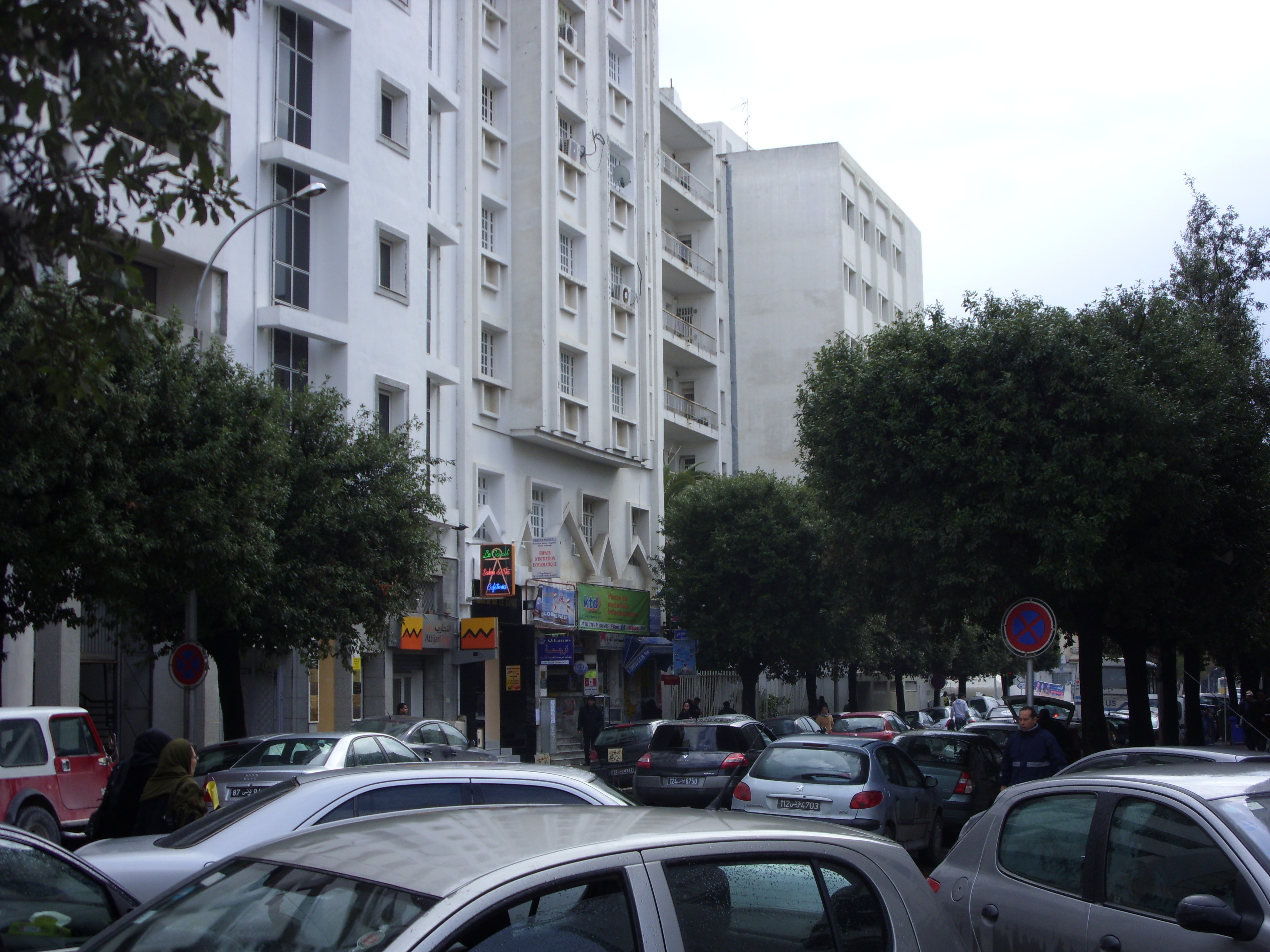 Liberty Street, Tunis